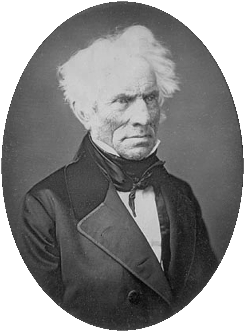 Daguerreotype of François André Michaux. Image from the Harvard University Library. Cropped desaturated by the uploader